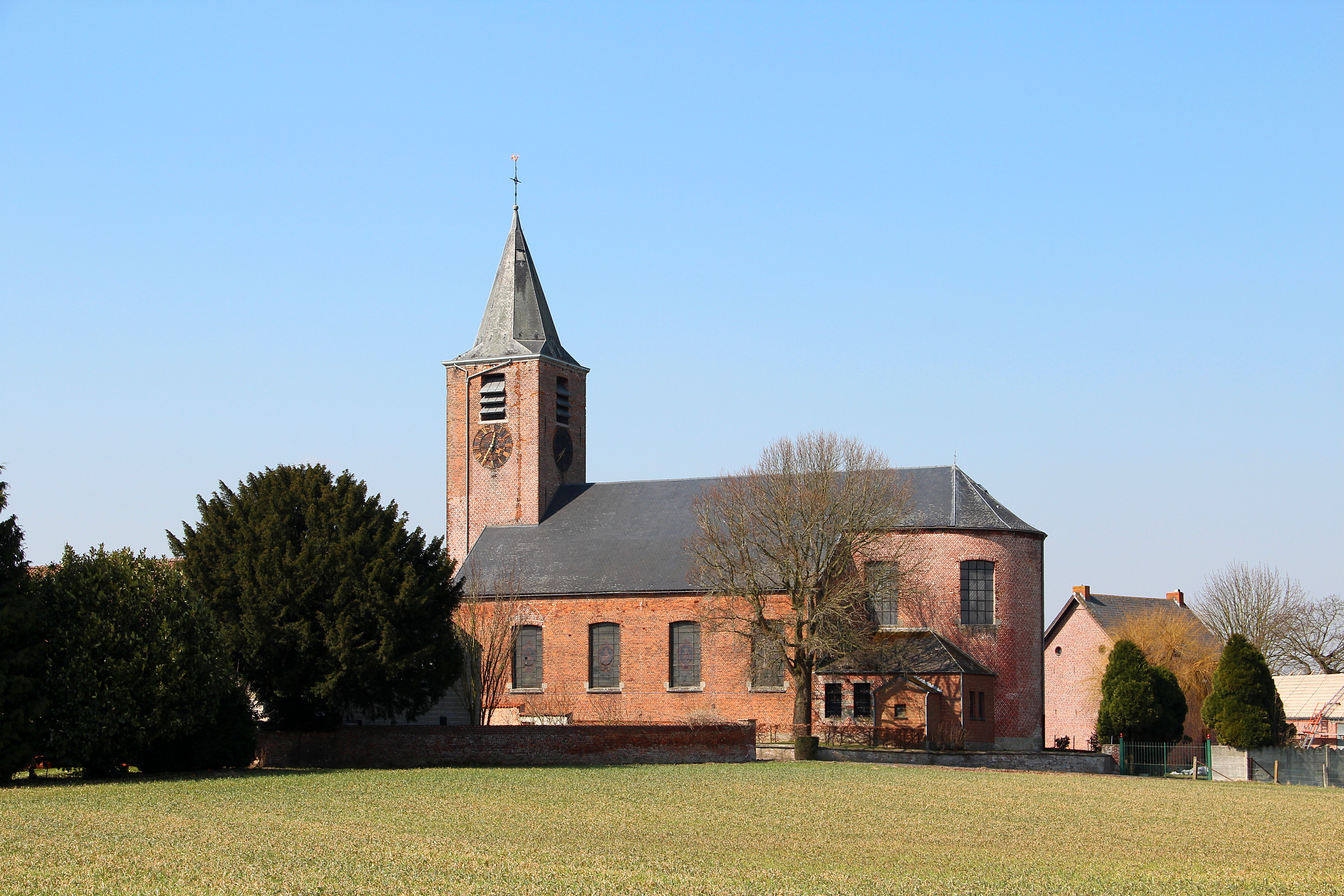 Houtaing (Belgium), the Church of Saint-Quirinus (1789).